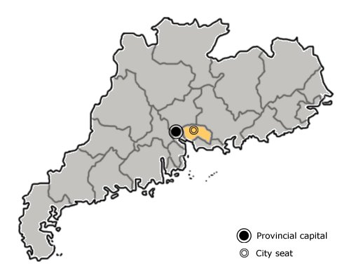 The prefecture-level city of Dongguan is highlighted on this map of Guangdong province, People's Republic of China.